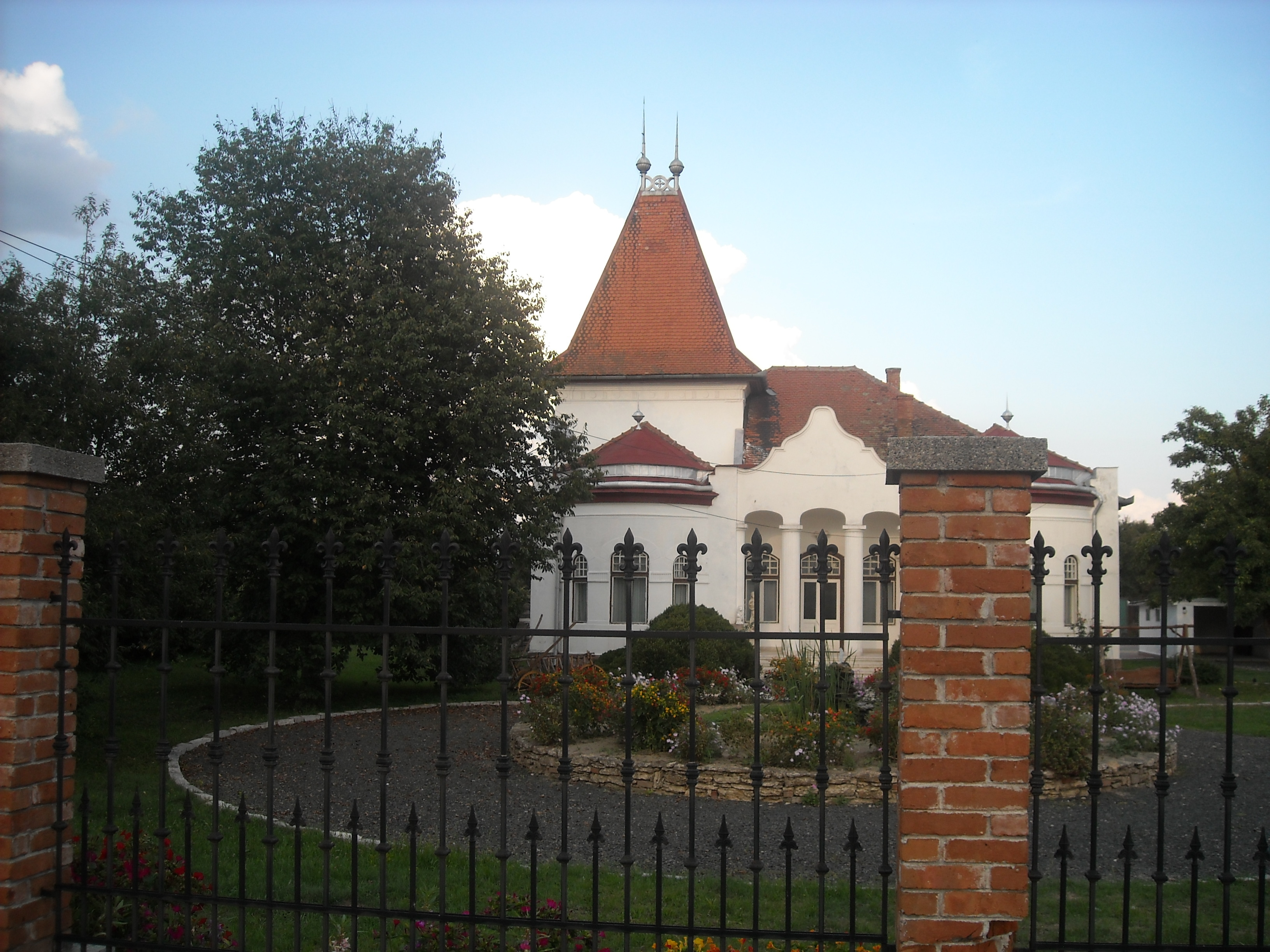 mansion, built after 1878 by the Rappaport family in Ilia (Marosillye), Hunedoara County, Romania